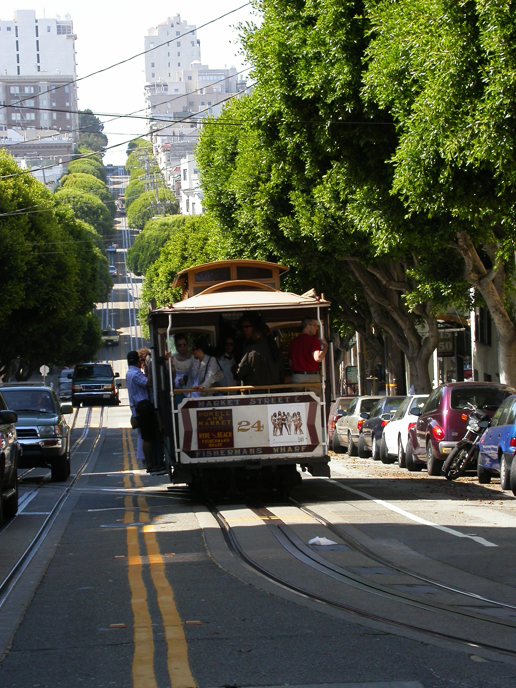 Cable car #24 in San Francisco in 2005. Taken using a Nikon Coolpix 4500.